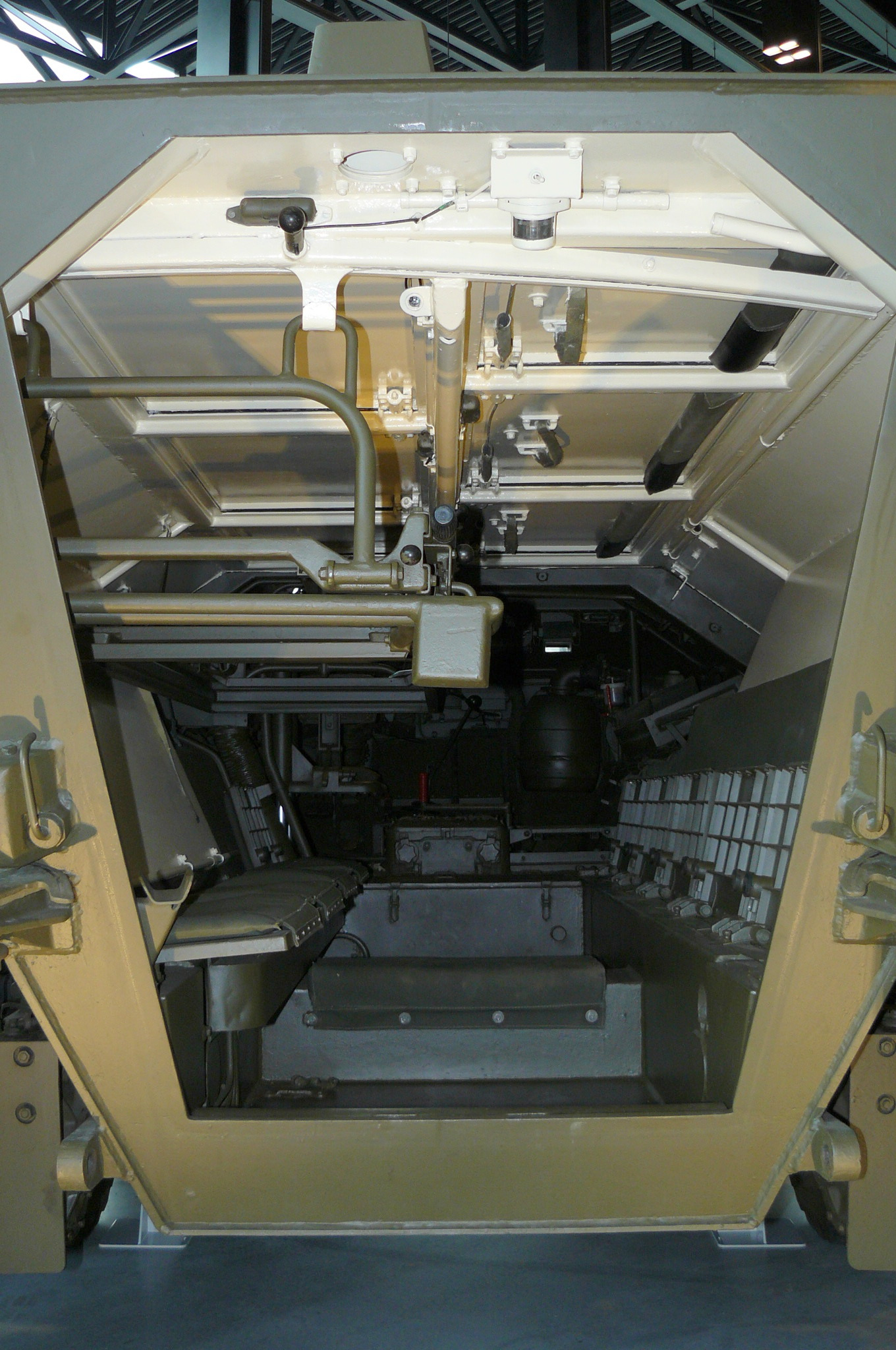 Interior DAF YP408 ambulance, seen in National Militair Museum in Soesterberg, the Netherlands.